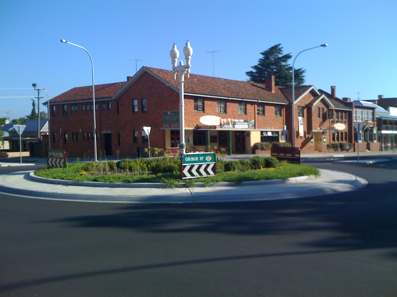 The Park Hotel, Bathurst, New South Wales.